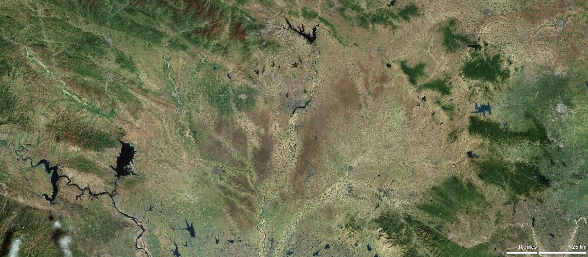 Nanyang Base NASA Map.